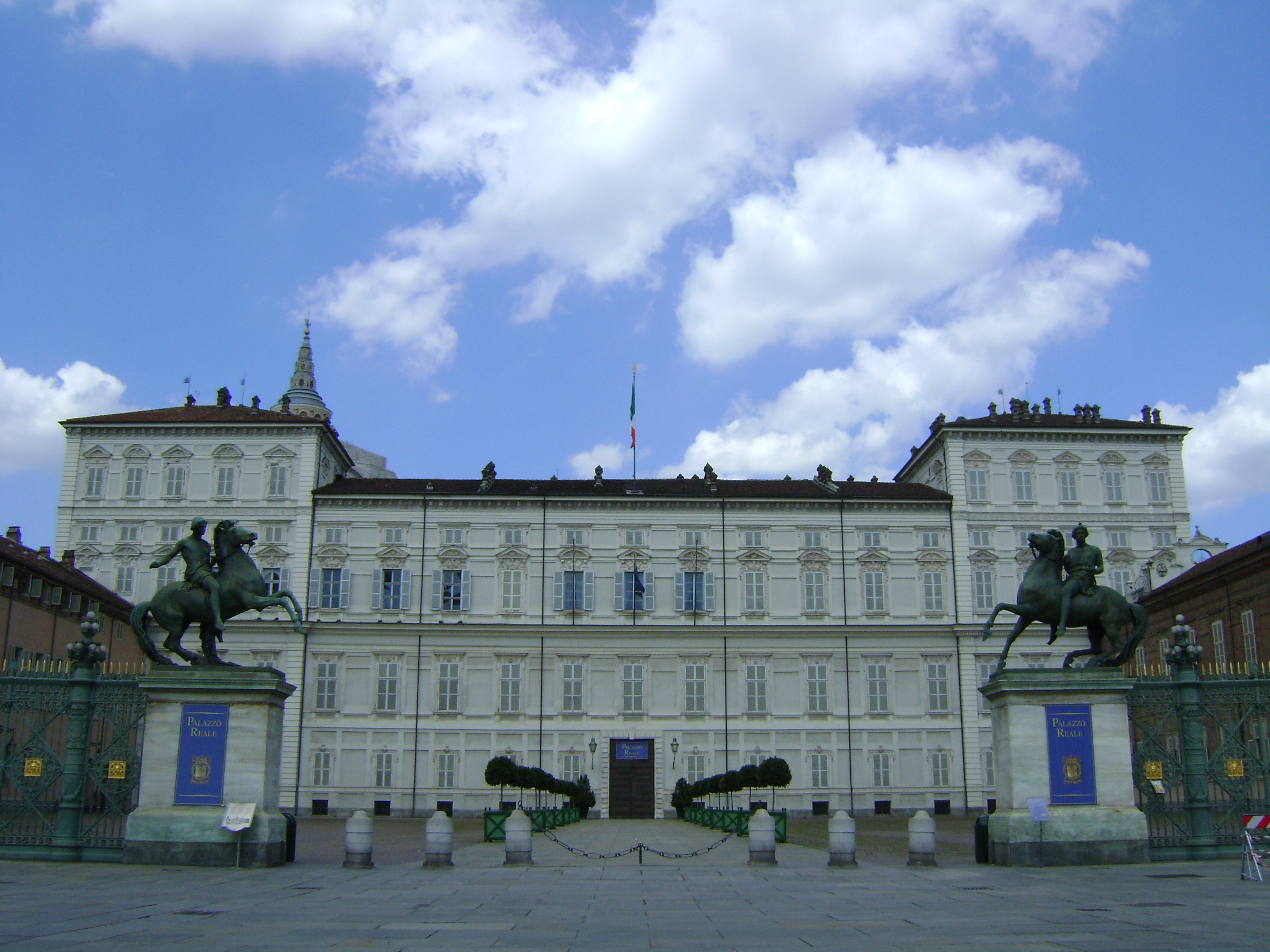 Front of the royal palace of Turin